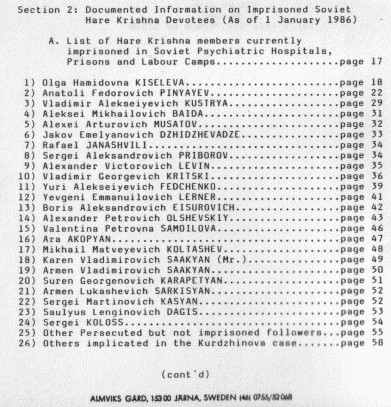 This is a list from scan of contents section of publication of Comitee to Free Soviet Hare Krishnas, circa 1986